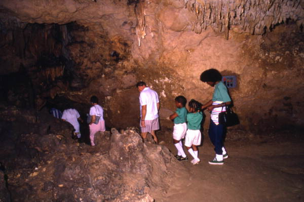 Local call number: COM00225 Personal Author: Gaines, James. Title: [View of visitors on tour inside cave at the Florida Caverns State Park : Marianna, Florida] Date: 19--. Physical descrip: 1 slide : col. Series Title: (Department of Commerce collection. Series/Collection number: S 1047, Publicity photographs, 1940-1996 ; Box 1, FF9.) General Note: Florida Caverns State Park is the only Florida state park to offer cave tours to the public. Repository: 500 S. Bronough St., Tallahassee, FL 32399-0250 USA. Contact: 850-245-6700. Persistent URL